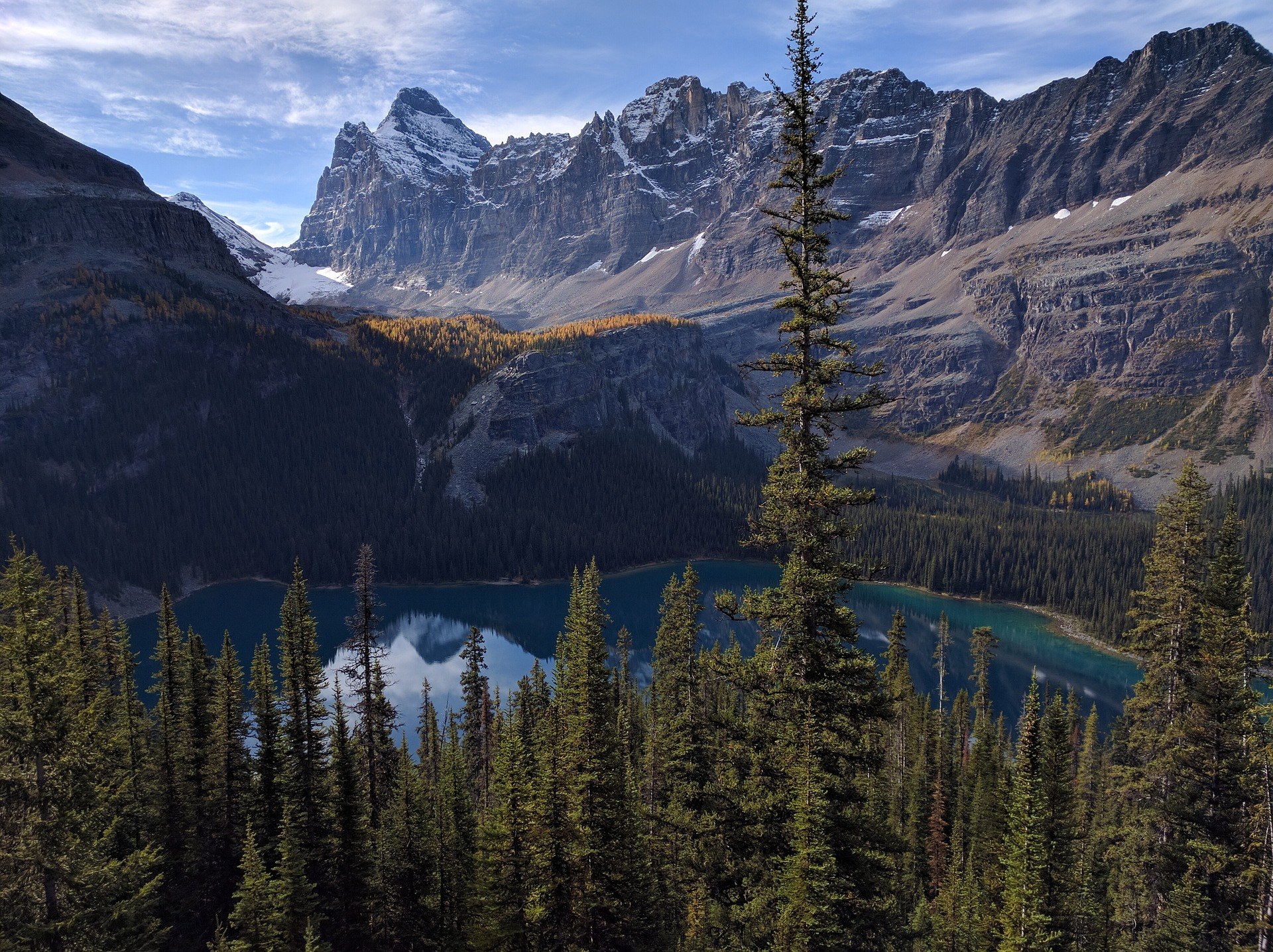 Mount Biddle, Mount Schaffer, Lake O'Hara in Yoho National Park, Alberta, Canada